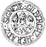 Sign of Gillberg Hundred.